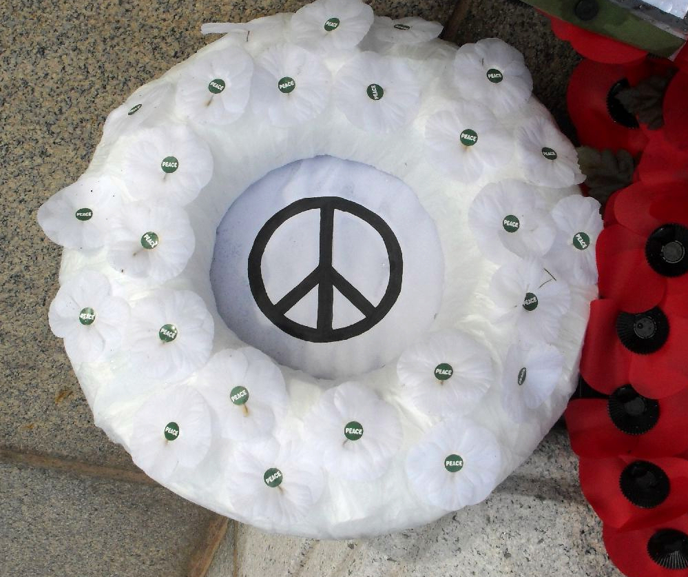 White Peace Poppies made into a wreath to remember the dead sitting next to a red poppy wreath.